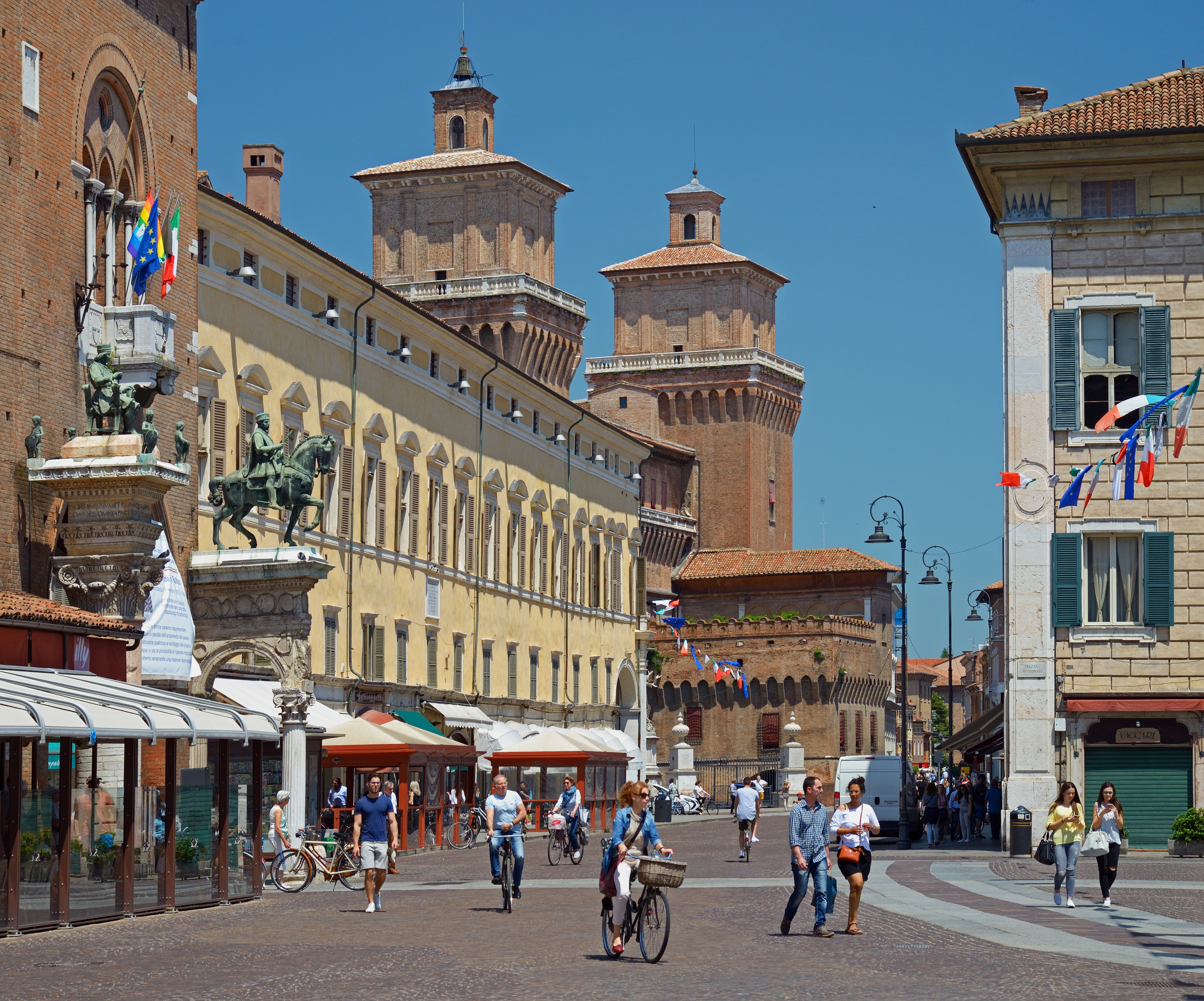 Piazza della Cattedrale. Ferrara, Italy